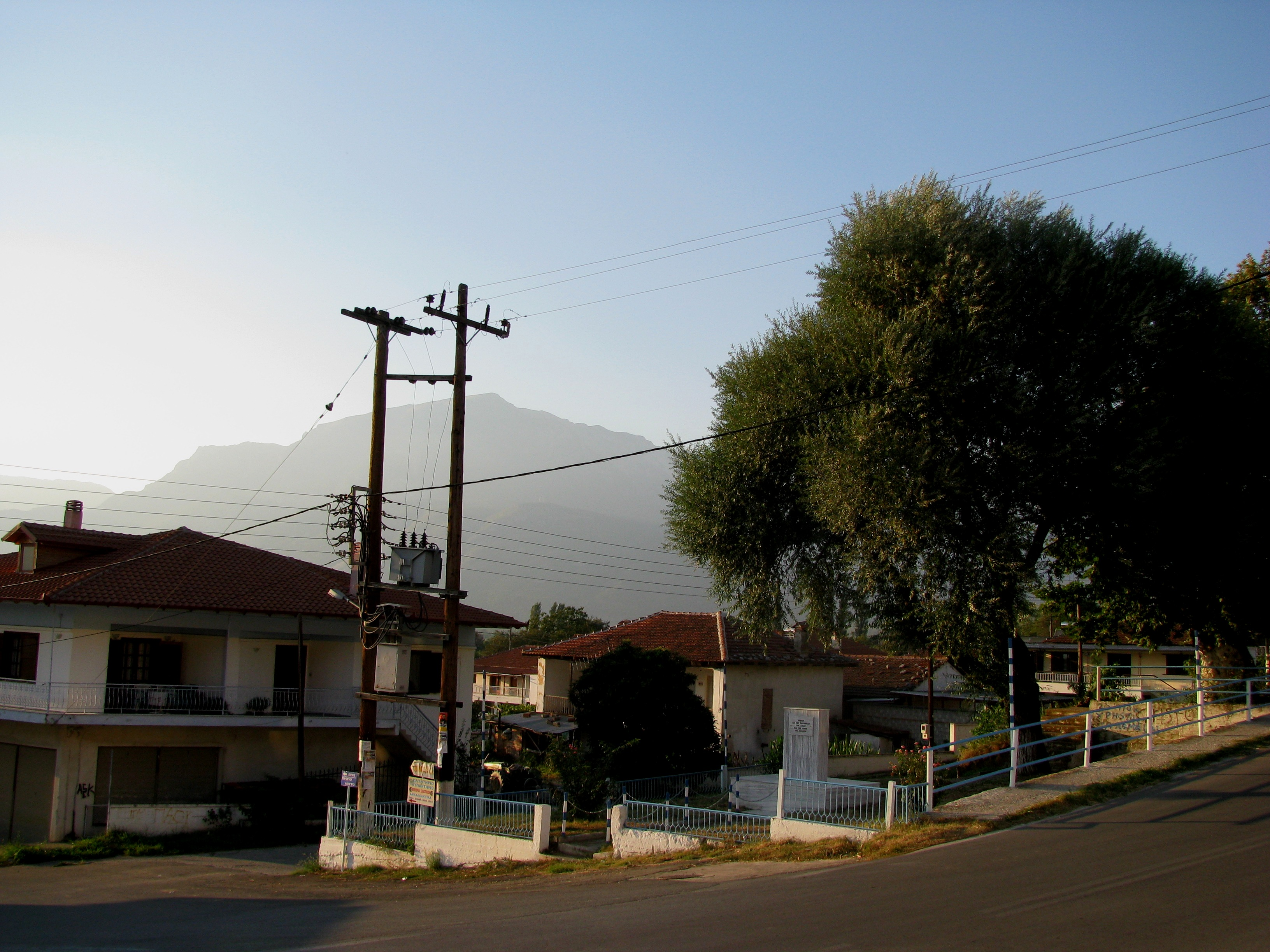 village of Straishta or Ida, Pella prefecture, Greece